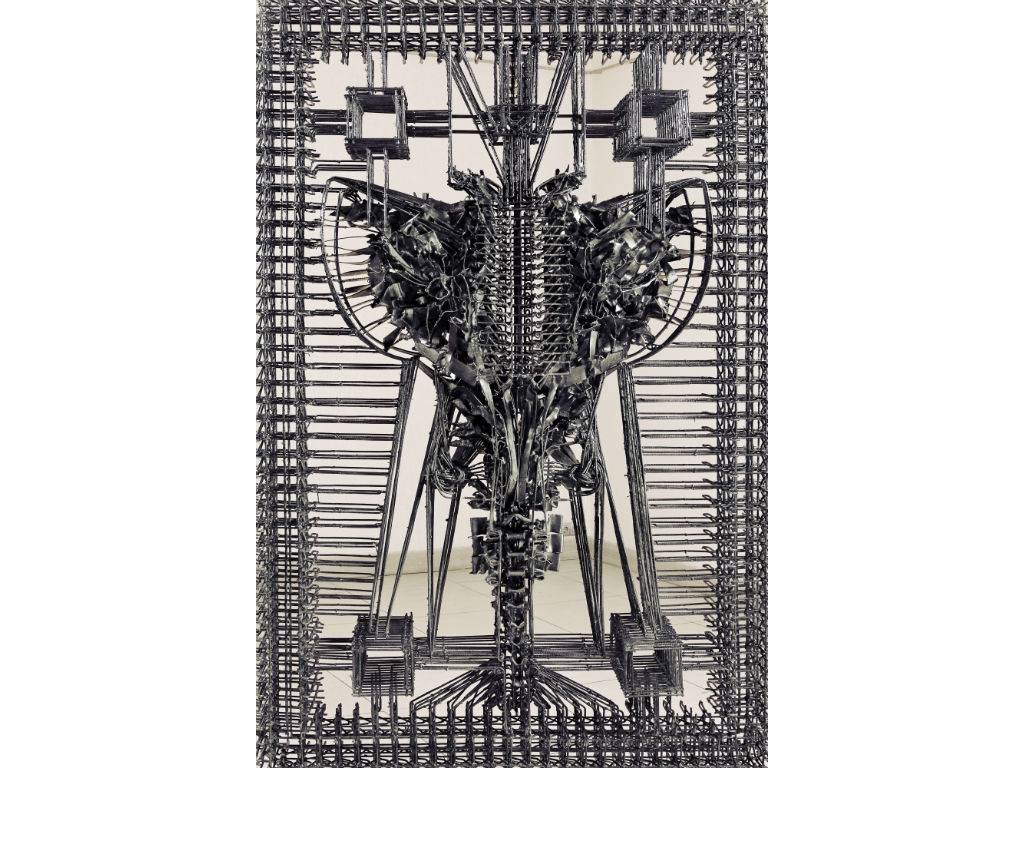 Taurus by Dmitry Zhukov. Steel, forging, 2014